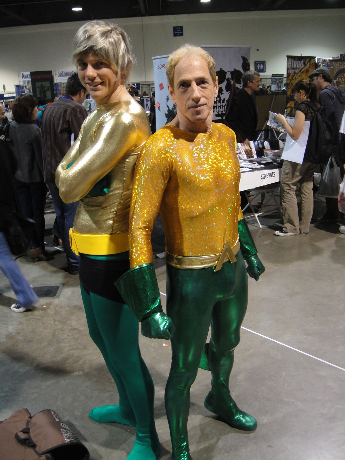 photo 2011 Pop Culture Geek taken by Doug Kline If you're interested in higher resolution versions of my images, contact me via my profile page.